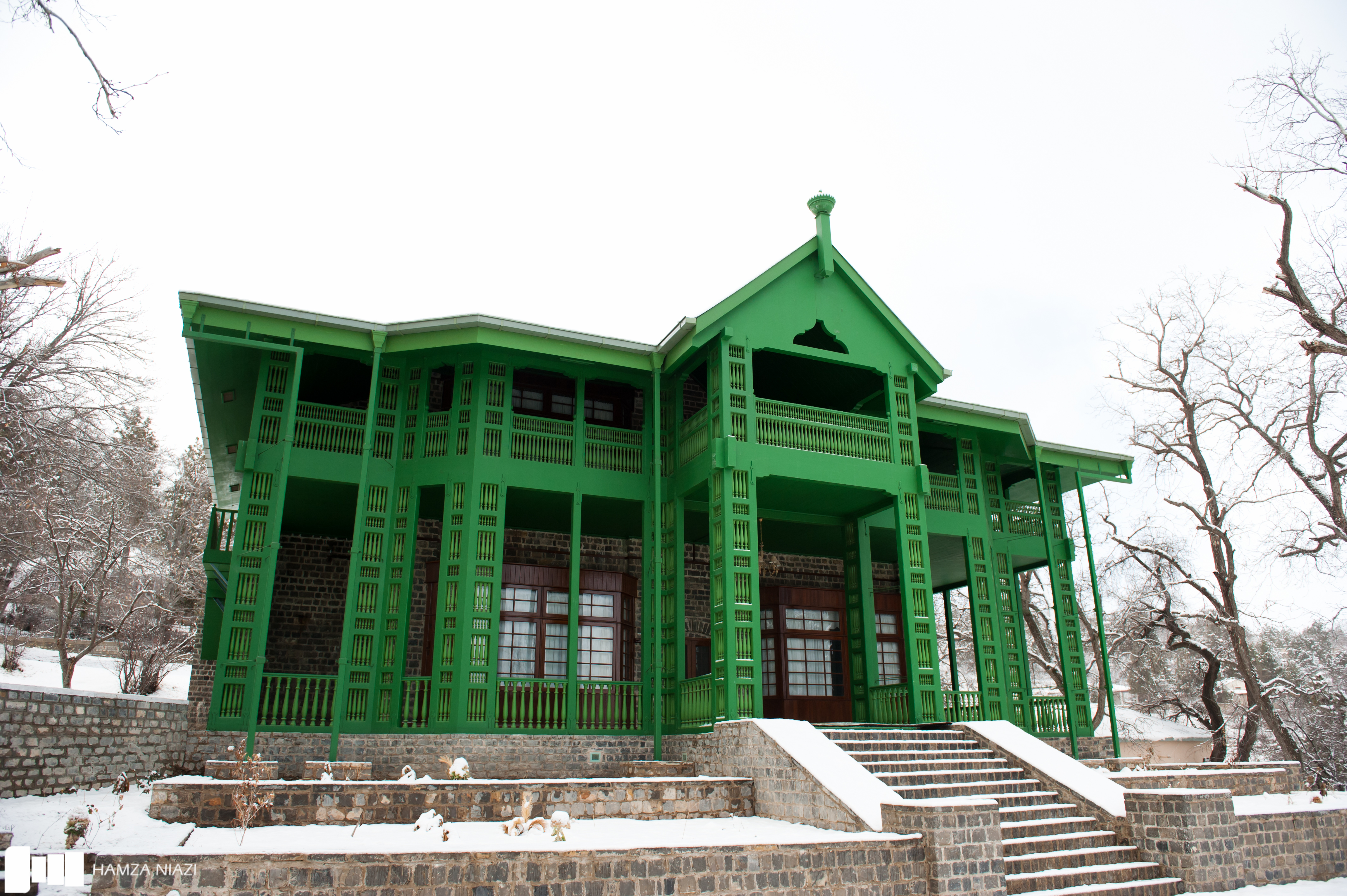 Quaid-i-Azam Residency Building This is a photo of a monument in Pakistan identified as the BA-27